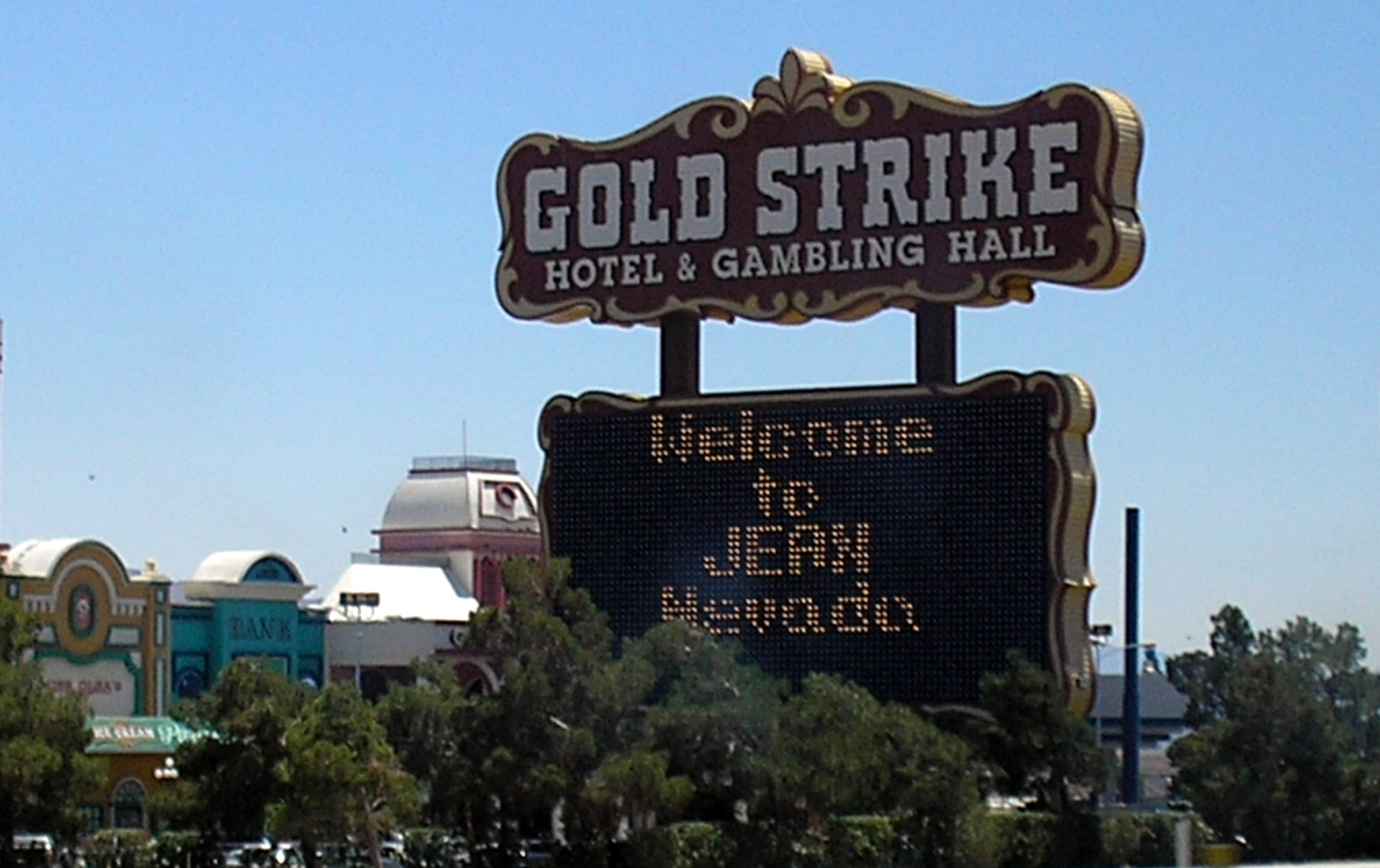 Photograph of the Gold Strike sign.